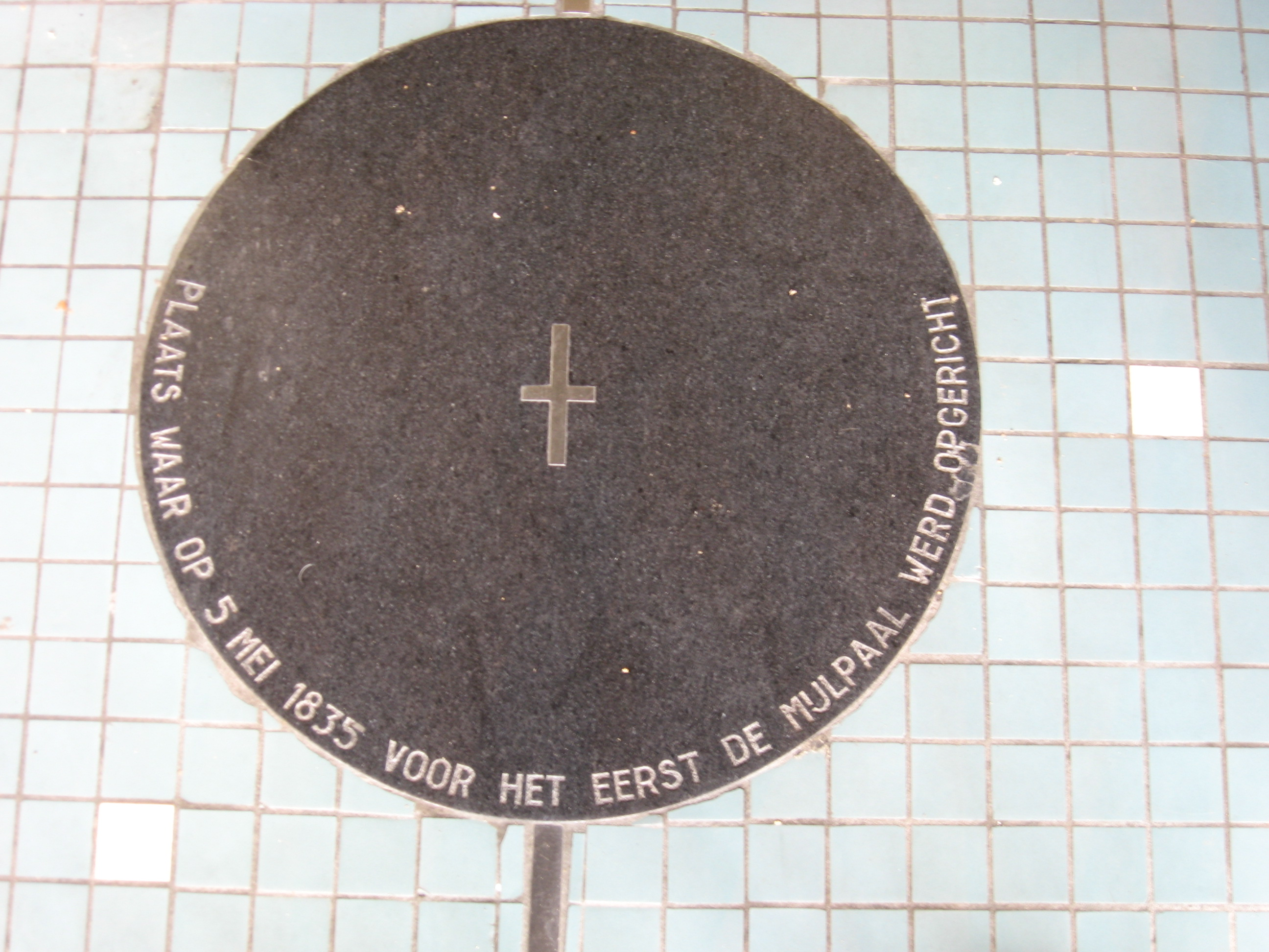 The original zero point of the Belgian railway network, wich started from Mechelen. There used to be a milestone here.